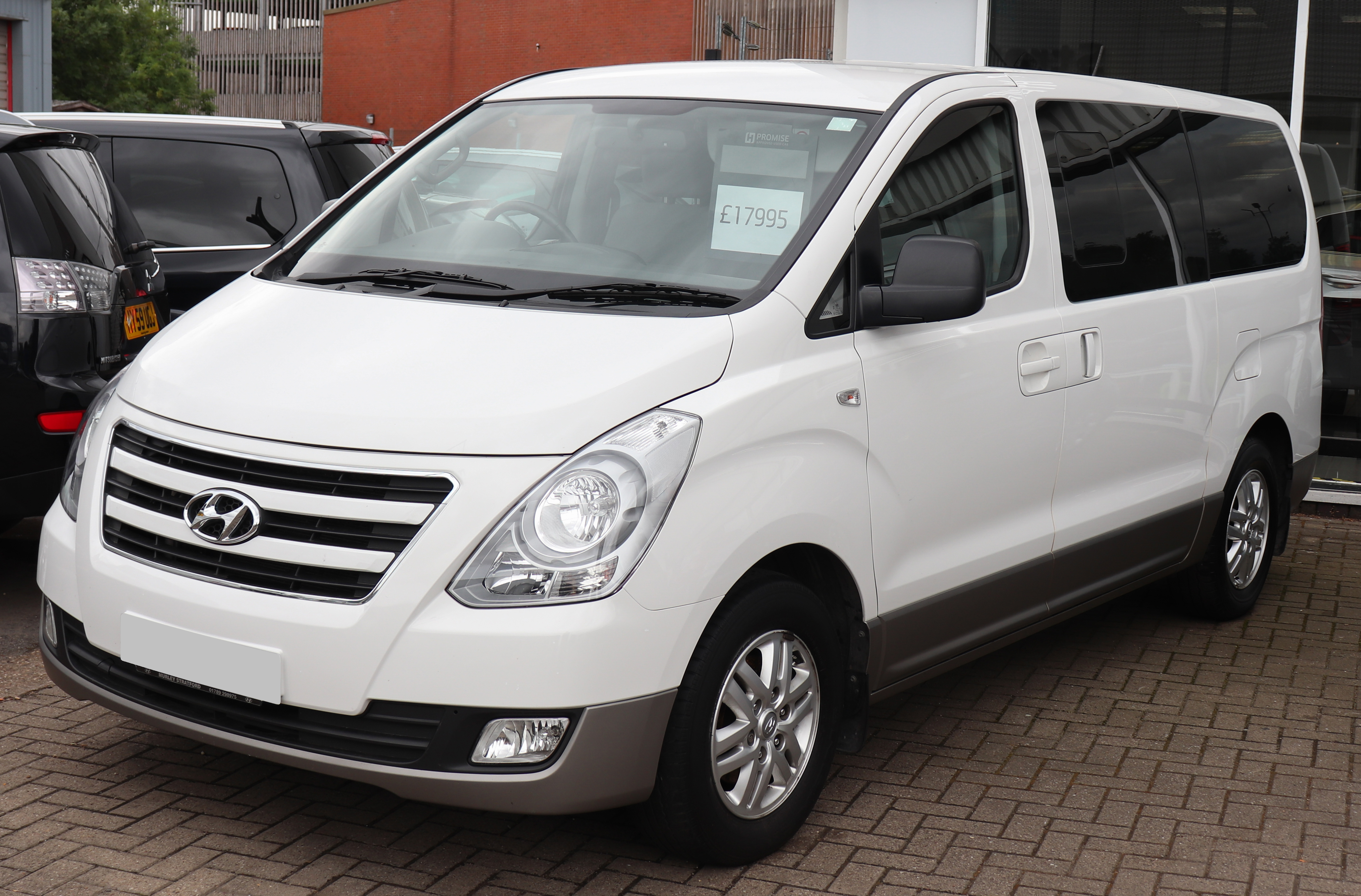 2017 Hyundai i800 SE CRDi Automatic 2.5 Taken in Stratford-upon-Avon